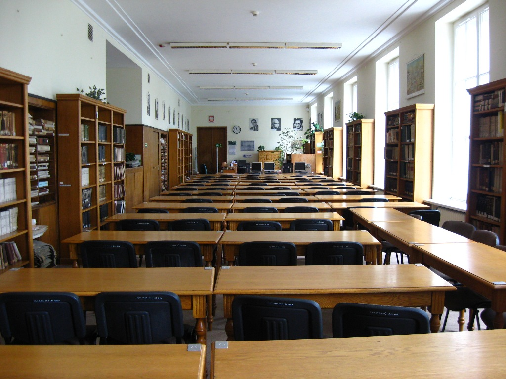 Reading-room